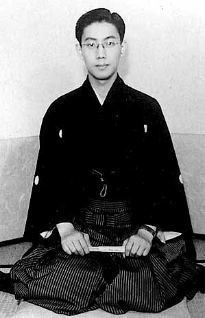 Raizō Ichikawa VIII (1931–69), on the day he was adopted by Jukai Ichikawa III.